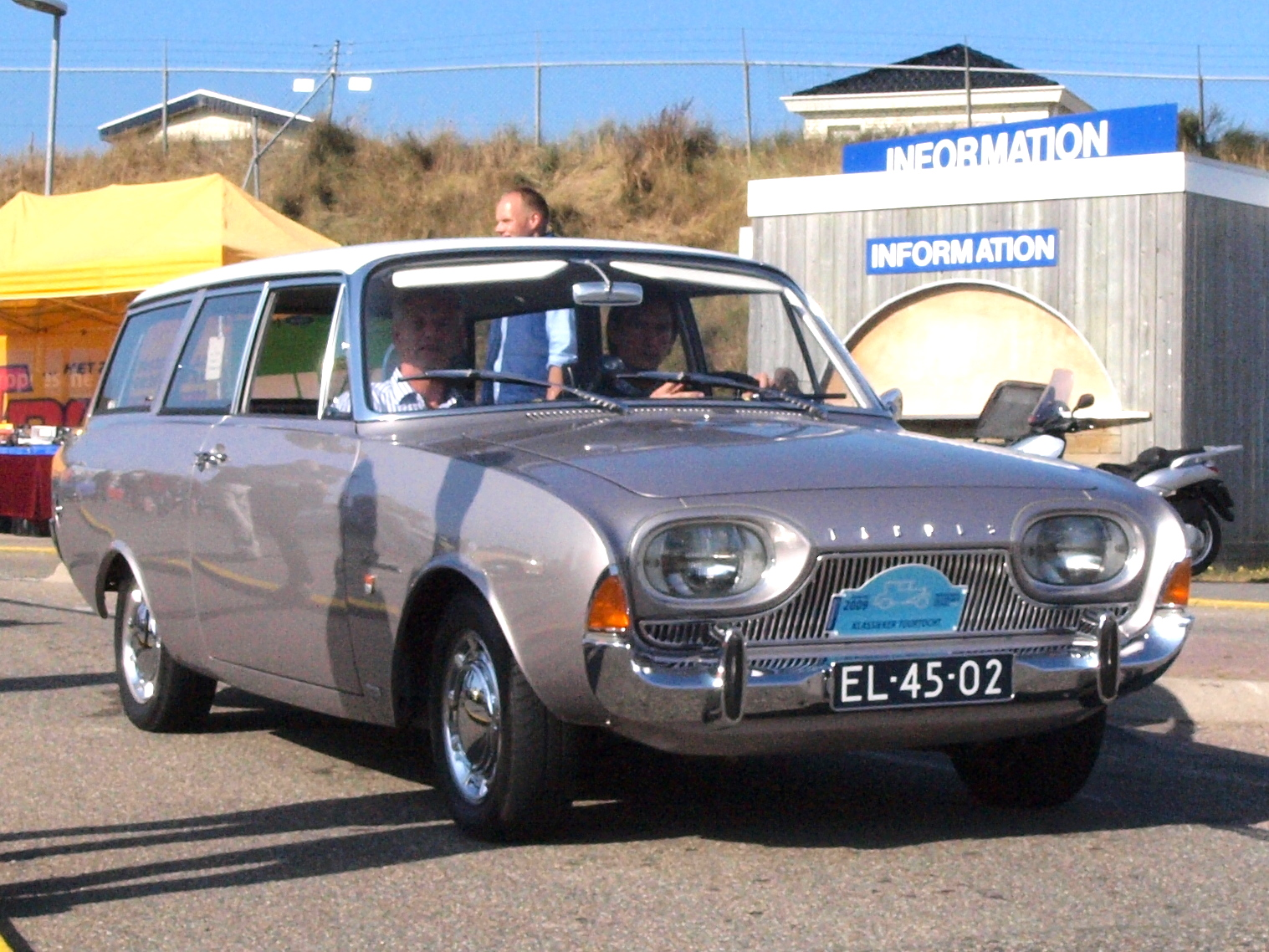 Photographed at the Nationaal Oldtimer Festival Zandvoort 2009, The Netherlands. OLYMPUS DIGITAL CAMERA